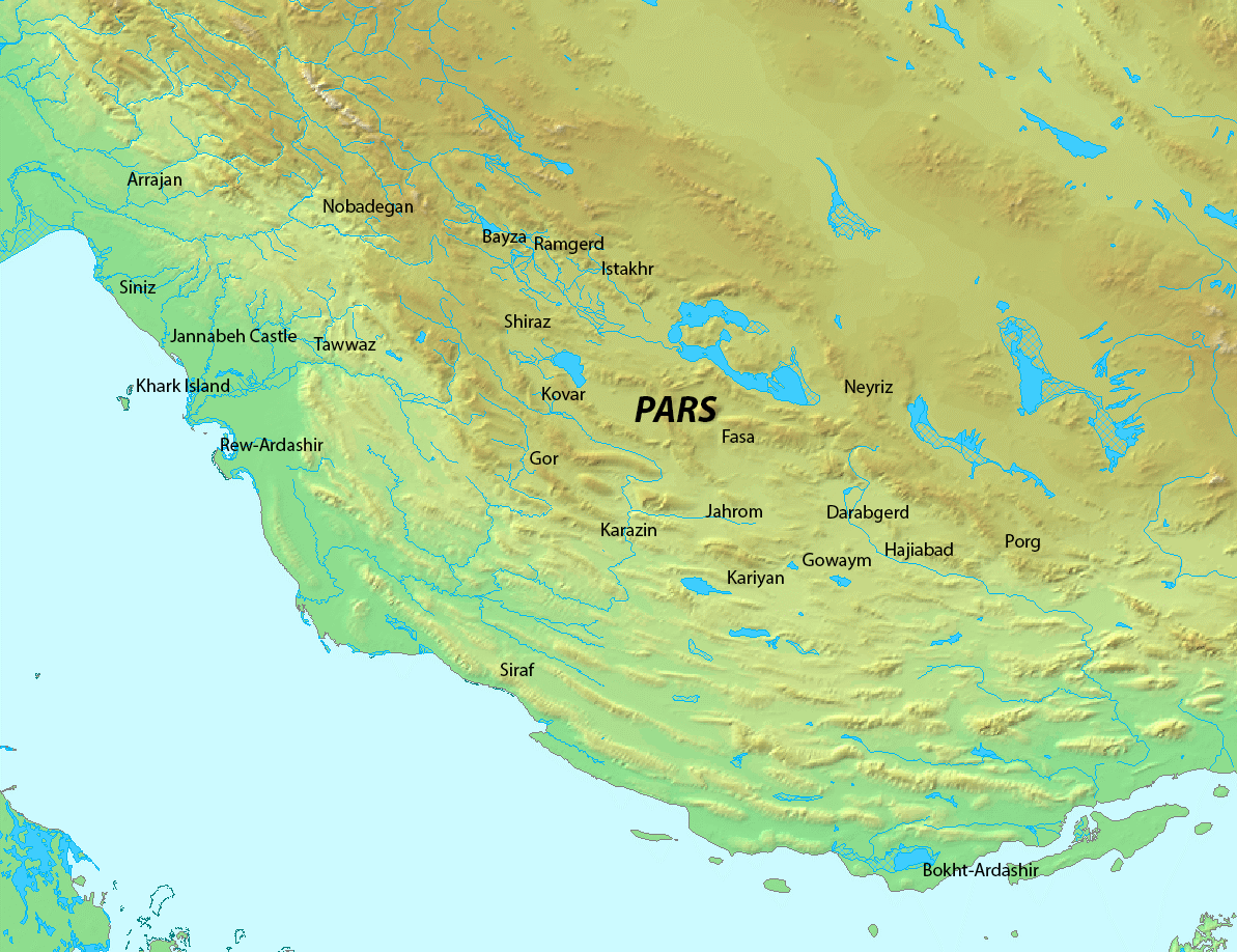 Map of the Sasanian province of Pars. Map taken from DEMIS Mapserver, which is public domain, the rest is self-made.